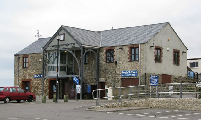 Charmouth Heritage Coast Centre, an educational centre located on the Jurassic Coast in Charmouth, Dorset, England.